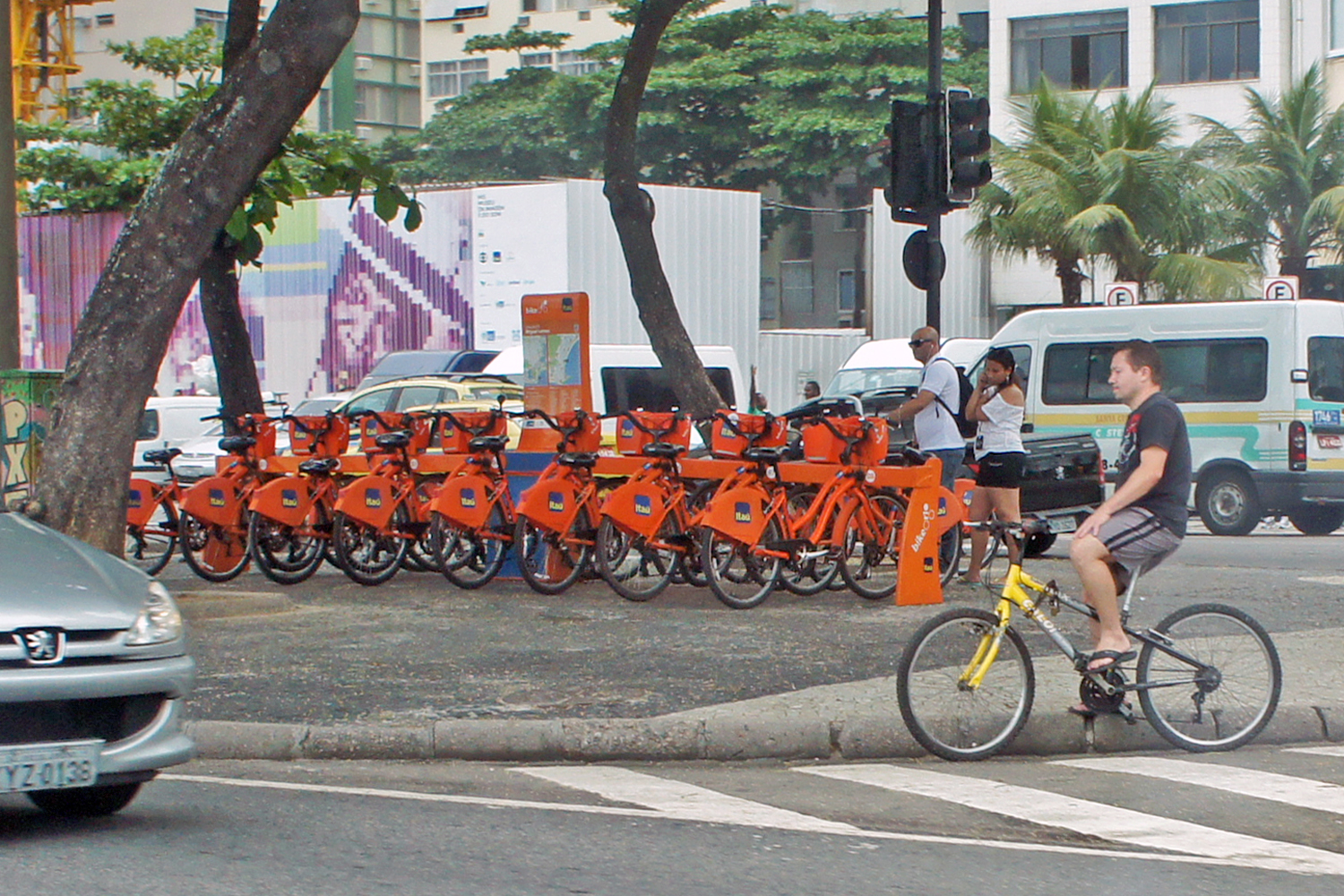 Bike Rio rental station at Avenida Atlântica, Copacabana, Rio de Janeiro, Brazil.